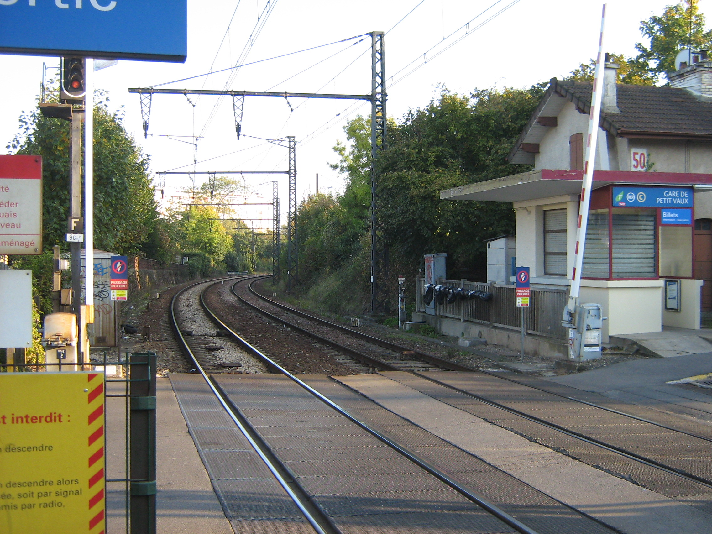 The Petit-Vaux station, in Epinay-sur-Orge (France)